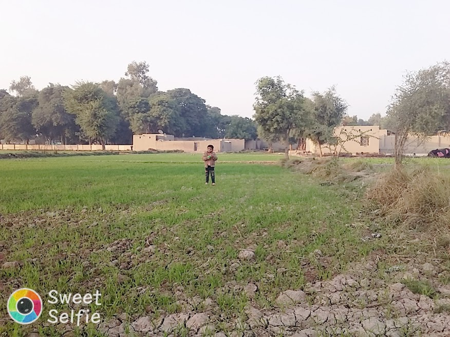 Machur form southeast side and back side of RHC Centre